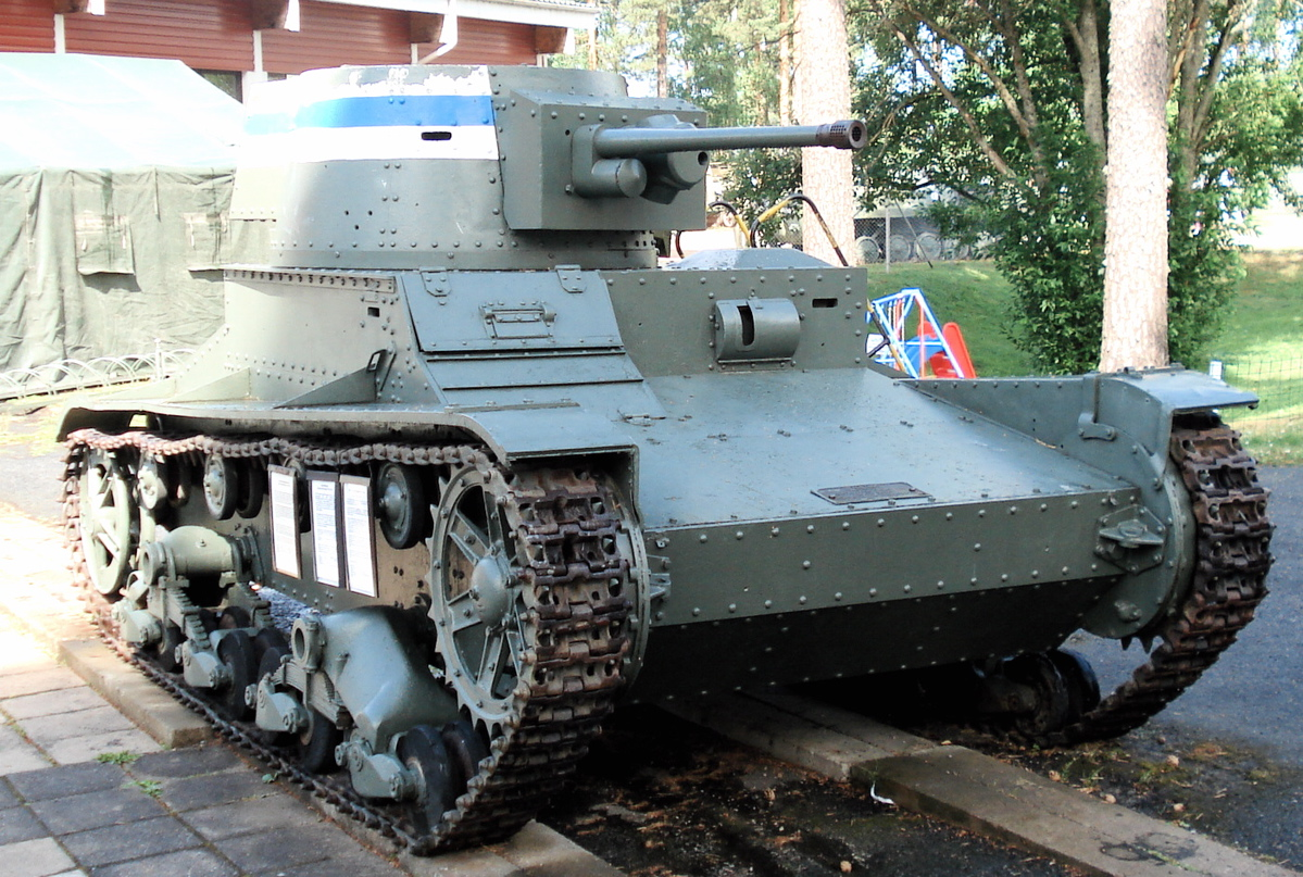 Finnish 6-ton Vickers tank, manufactured in Britain in 1938. This tank has the Bofors 37 mm gun, in contrast to many Vickers tanks in Finnish service which were upgunned with the Soviet 45 mm gun during the war. The blue-white stripes were used as identification during the Winter War, presumably to distinguish the tanks from very similar looking Soviet T-26s. Displayed in Finnish Tank Museum (Panssarimuseo) in Parola. Photo taken on July 14, 2006. Source: Photo by me, User:Balcer.